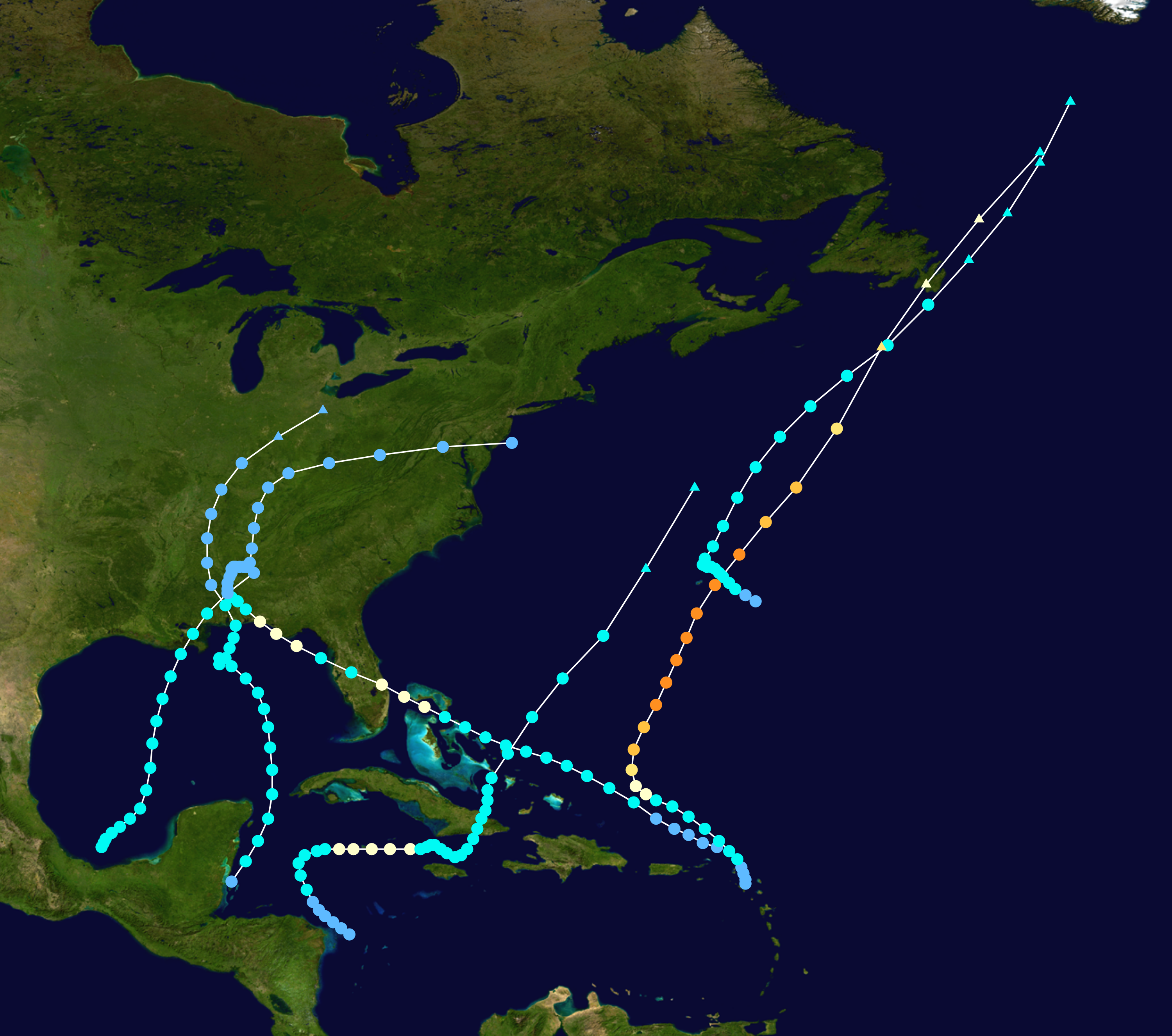 Track map of all storms of the 1939 Atlantic hurricane season. The points show the location of the storm at 6-hour intervals. The colour represents the storm's maximum sustained wind speeds as classified in the Saffir–Simpson hurricane wind scale (see below), and the shape of the data points represent the nature of the storm, according to the legend below. Saffir–Simpson hurricane wind scale Tropical depression≤38 mph≤62 km/h Category 3111–129 mph178–208 km/h Tropical storm39–73 mph63–118 km/h Category 4130–156 mph209–251 km/h Category 174–95 mph119–153 km/h Category 5≥157 mph≥252 km/h Category 296–110 mph154–177 km/h Unknown Storm typeTropical cycloneSubtropical cycloneExtratropical cyclone / Remnant low / Tropical disturbance